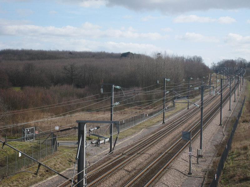 High Speed 1 Looking from bridge on the A20 a mile East of Hothfield.